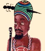 A painting of Nchare Yen from Foumban